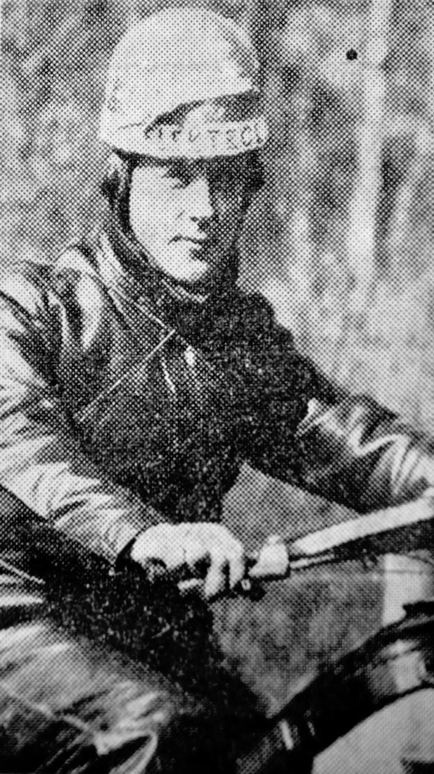 The image shows Jens Nielsen on a motorbike in the 1940s before a race.